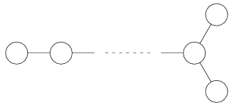 Dynkin diagram for D_n.